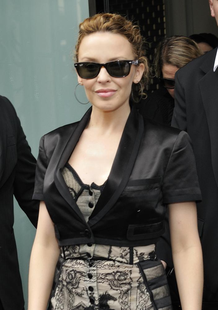 Singer Kylie Minogue – Défilé Jean-Paul Gaultier. People aux défilés de Haute-Couture, Paris, le 6 Juillet 2009. Collection Automne-Hiver 2009/2010.